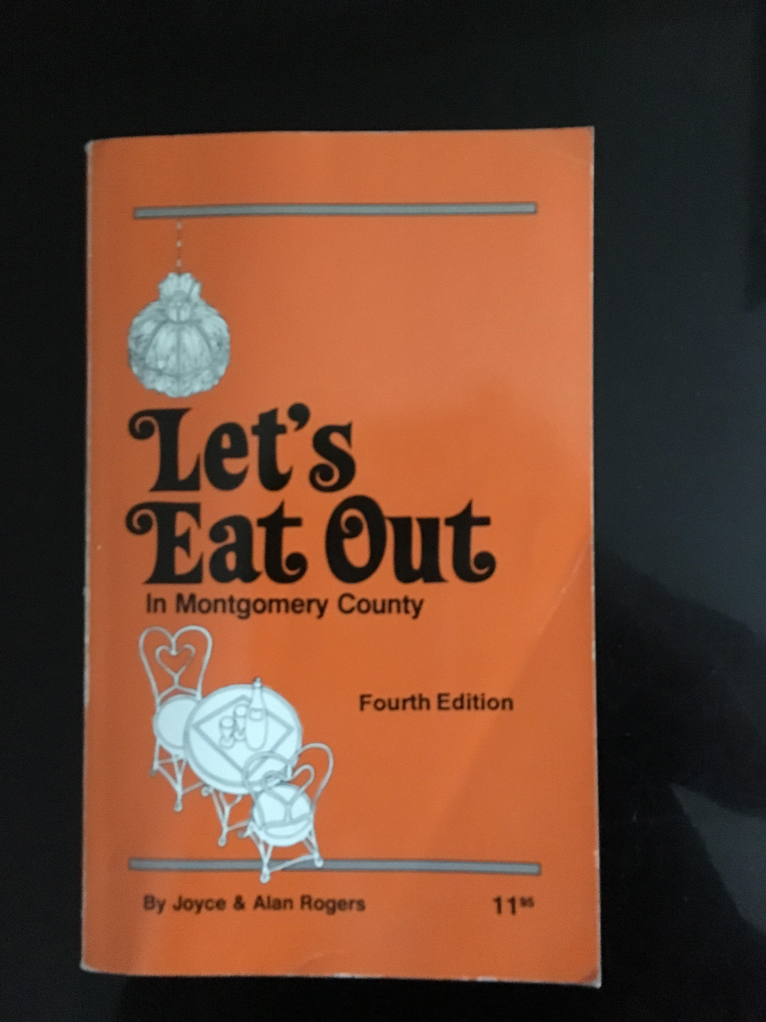 This is the cover of the restaurant review book by Joyce & Alan Rogers [Siegel] called "Let's Eat Out in Montgomery County"